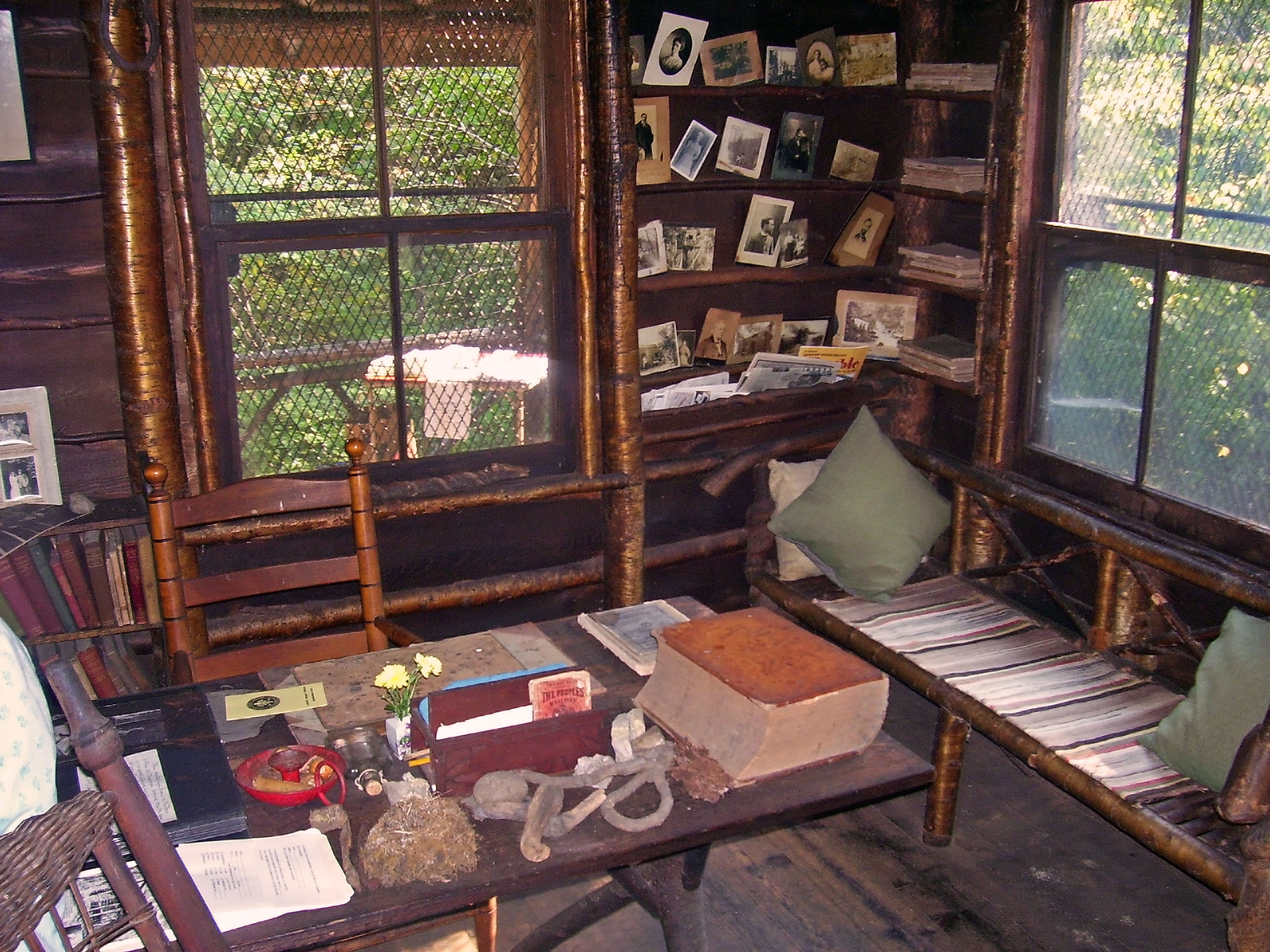 Table and furnishings handmade from local wood by John Burroughs and son at Slabsides, his cabin in West Park, NY, USA